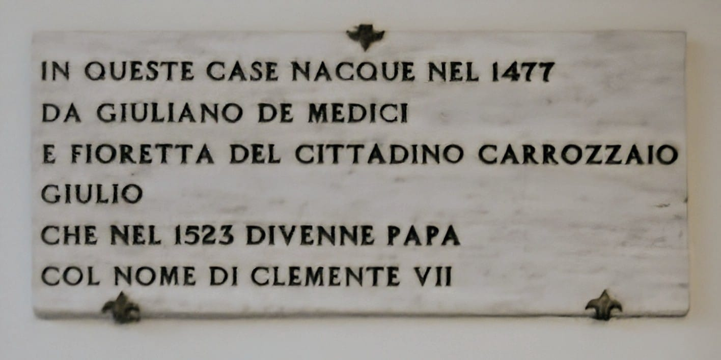 targa Clemente VII in Florence, Italy